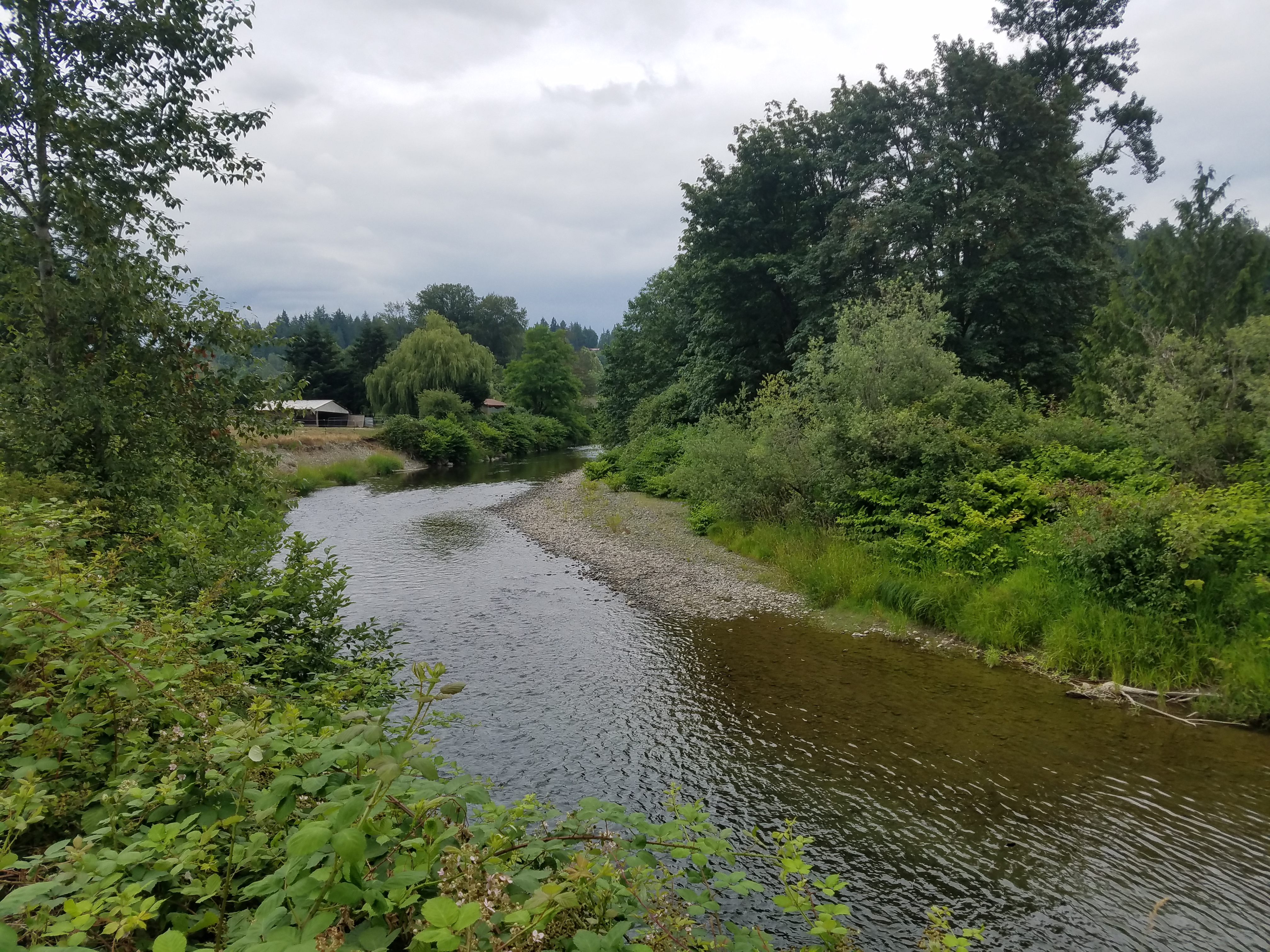 Pilchuck River, looking upstream, flowing through farmlands near Machias in the U.S. state of Washington.